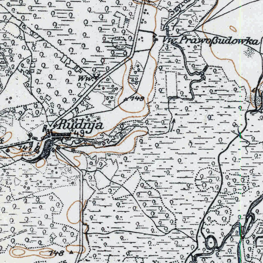 Rudnia on the map "Karte des Westlichen Russlands", T 35, 1917. According to Digital Repository of Scientific Institutes and Kujawsko-Pomorska Digital Library the map is in the public domain.